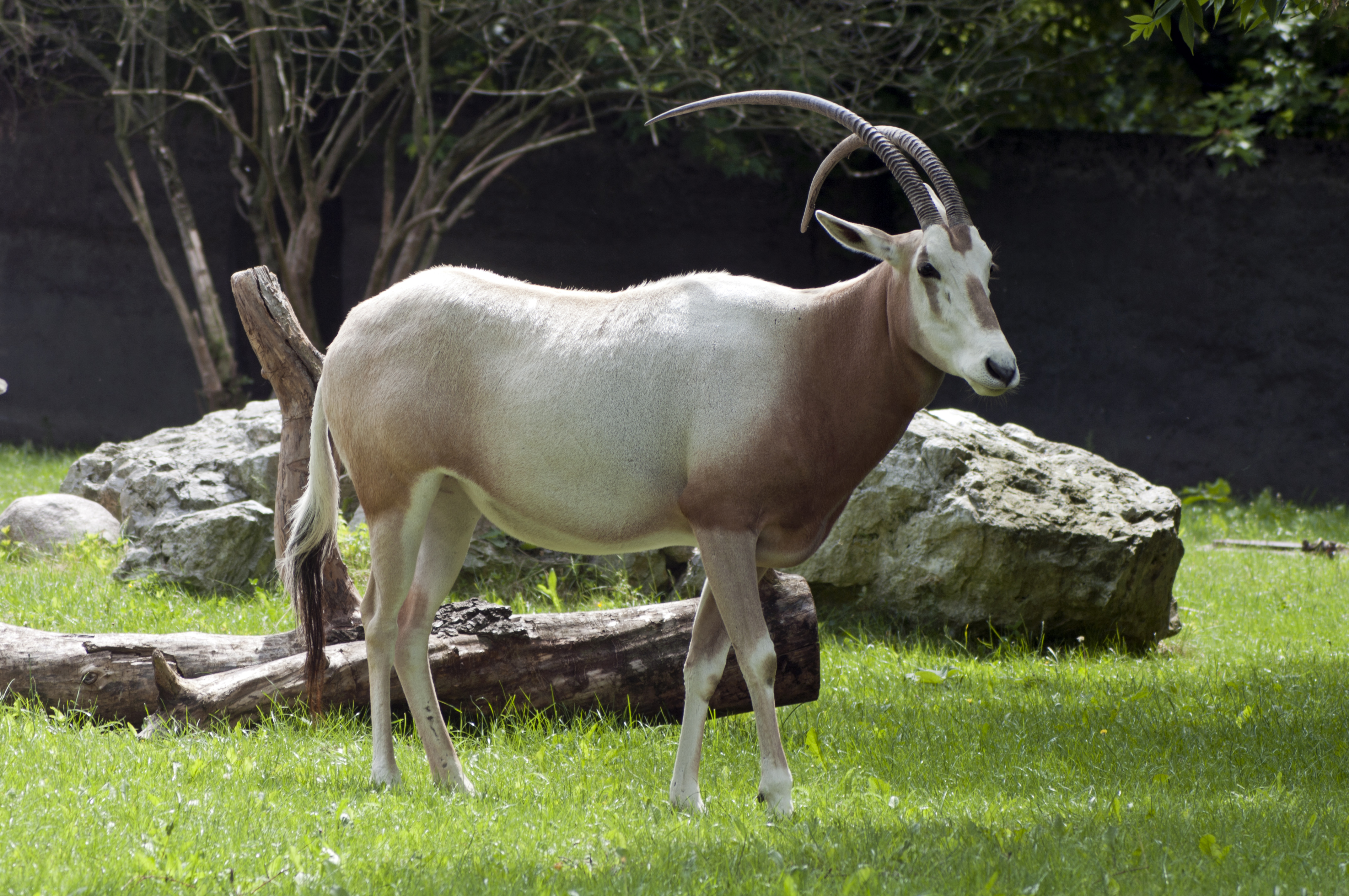 Scimitar oryx